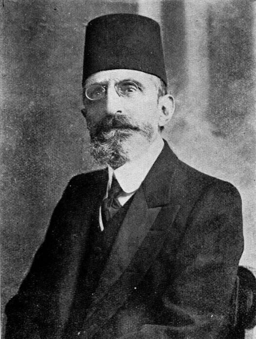 Johannes Pasha Kouyoumdjian (Ohannes Pasha Kouyoumdjian) 8th mutasarrif of Mount Lebanon Mutasarrifate (1912-1915)